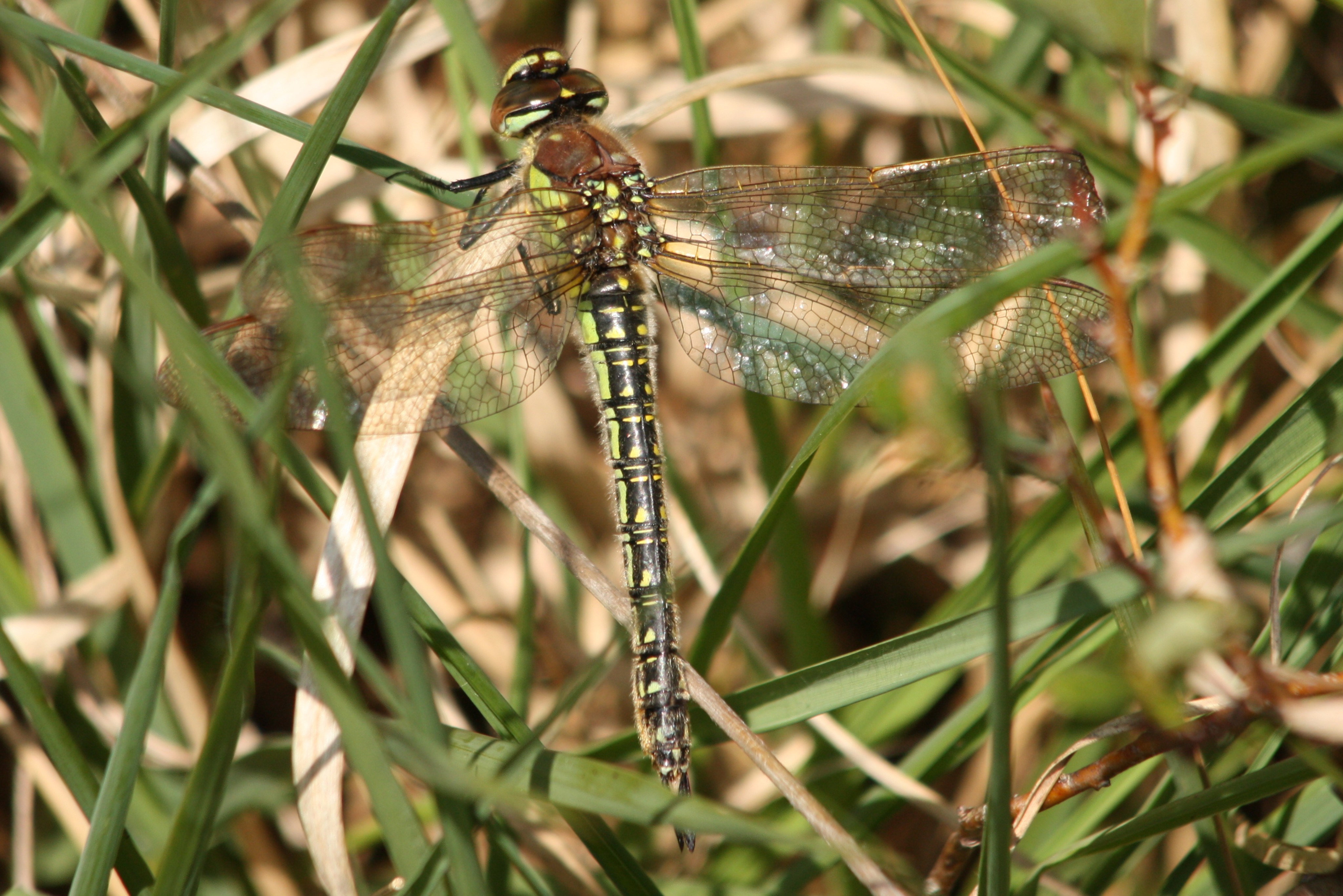 aka Spring Hawker, Brachytron pratense, female. I prefer the name "Hairy Hawker" but you have to go with the flow.